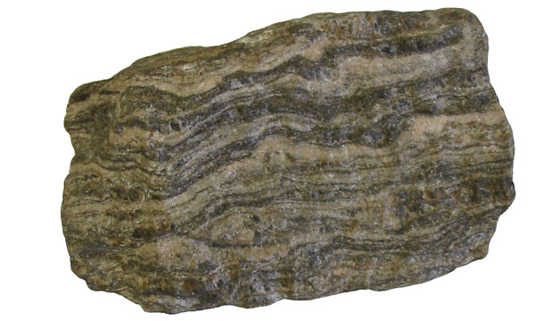 Photographer: Siim Sepp Date of the creation: 20th April, 2005. This rock is a property of museum of geology of University of Tartu.